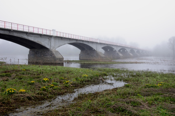 The Kasari old bridge in Lääne County, Estonia